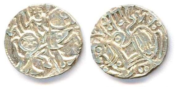 Coin of samantadeva